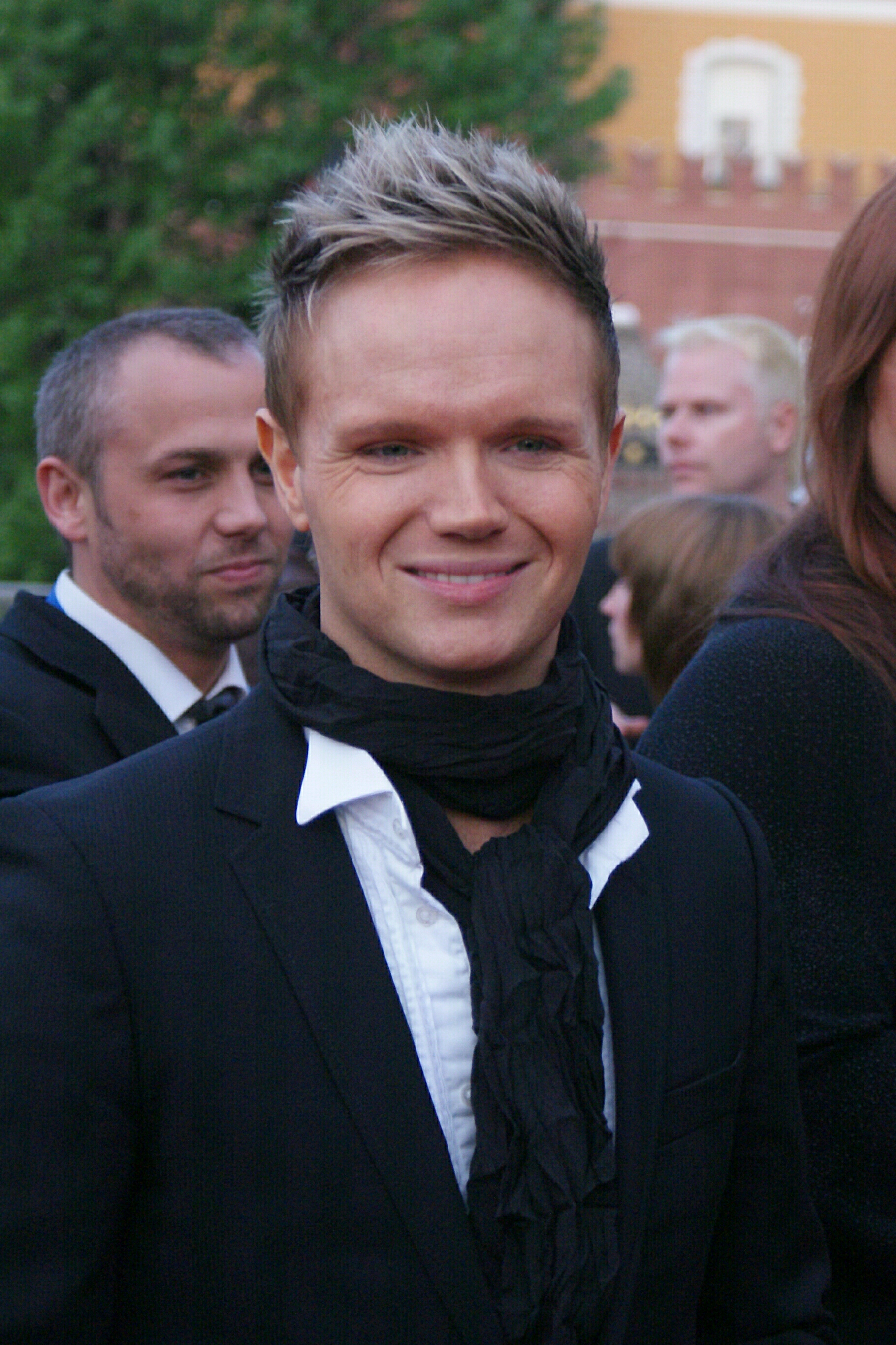 Friðrik Ómar in Moscow, 2009